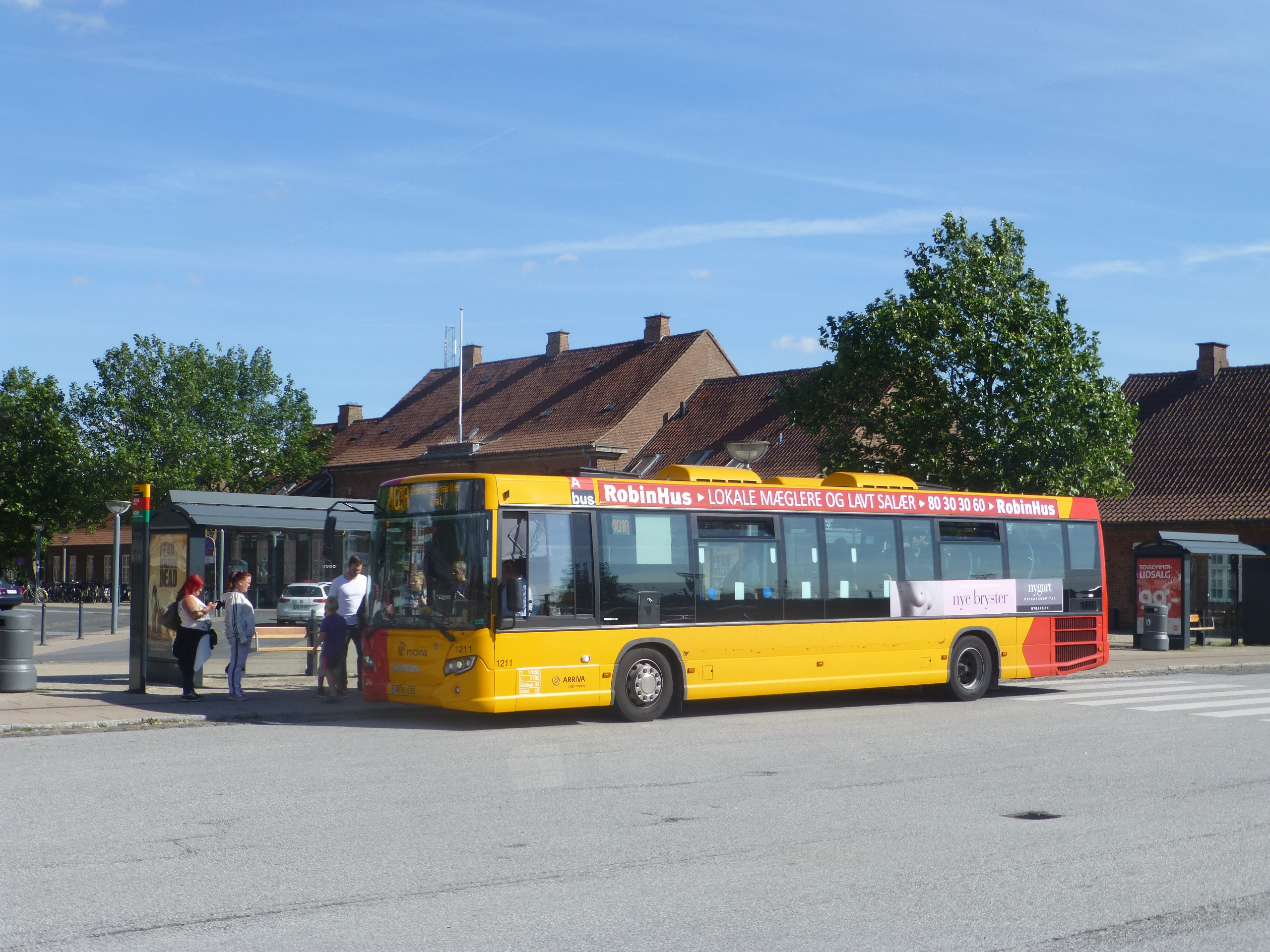 Movia bus line 401A at Ringsted Station in Denmark.